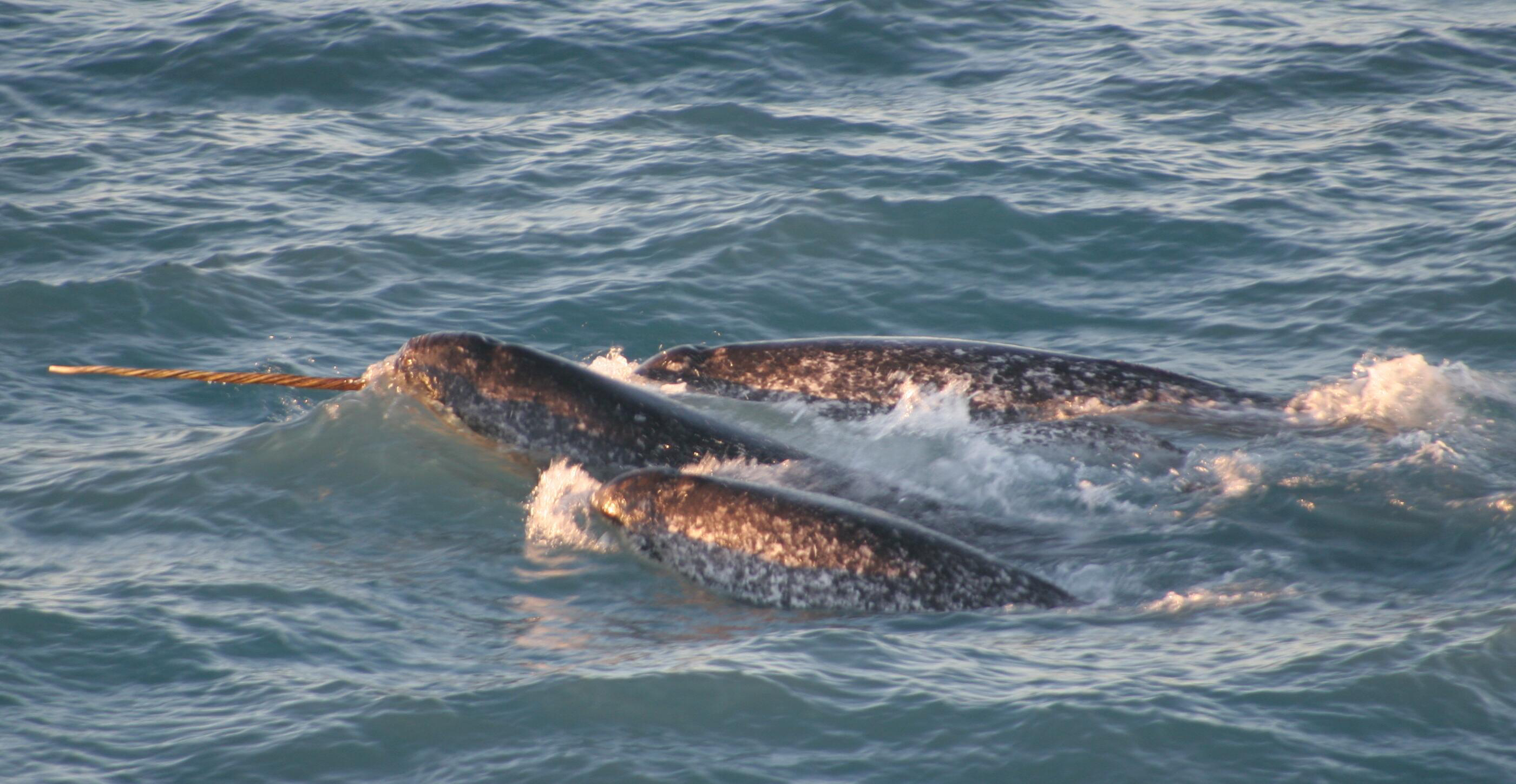 A pod of narwhals. Note the spiral configuration of the single tusk.